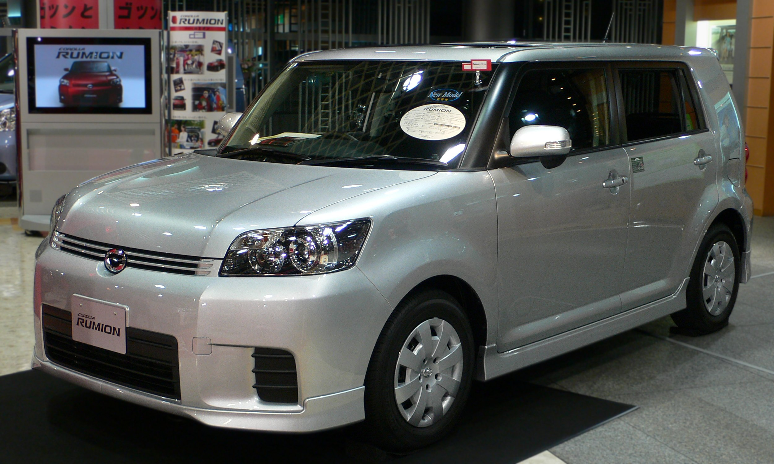 Toyota Corolla Rumion (トヨタ・カローラルミオン) (2007 - ) photographed in AMLUX